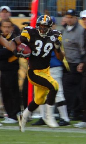 Willie Parker of the Pittsbrgh Steelers during an NFL game in 2006.